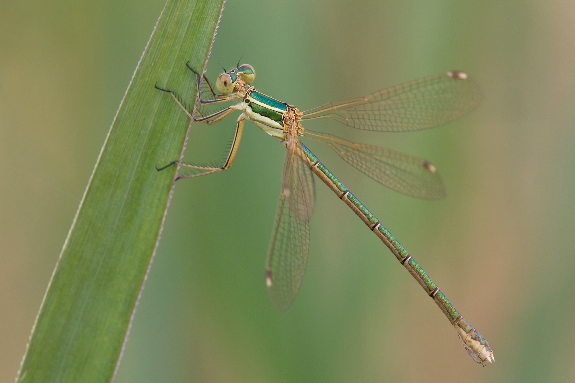 Female specimen of the Southern Emerald Damselfly (Lestes barbarus). All species-specific features are visible – at least in the big picture (two-colored backside of the eyes, drawing on thorax side, two-colored pterostigmata, shape of the ovipositor).